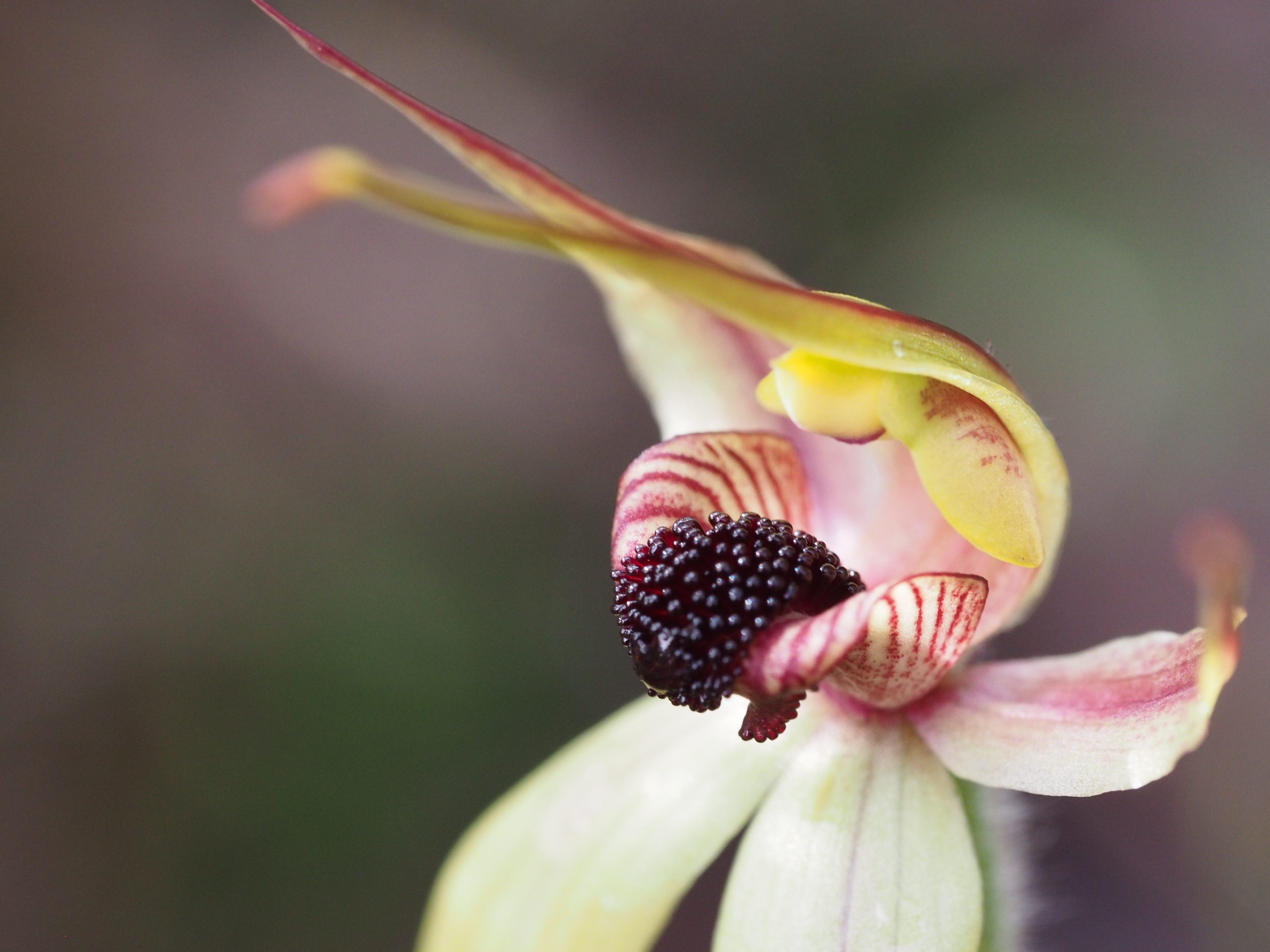 Caladenia macrostylis growing on Westbourne Road near Boyup Brook